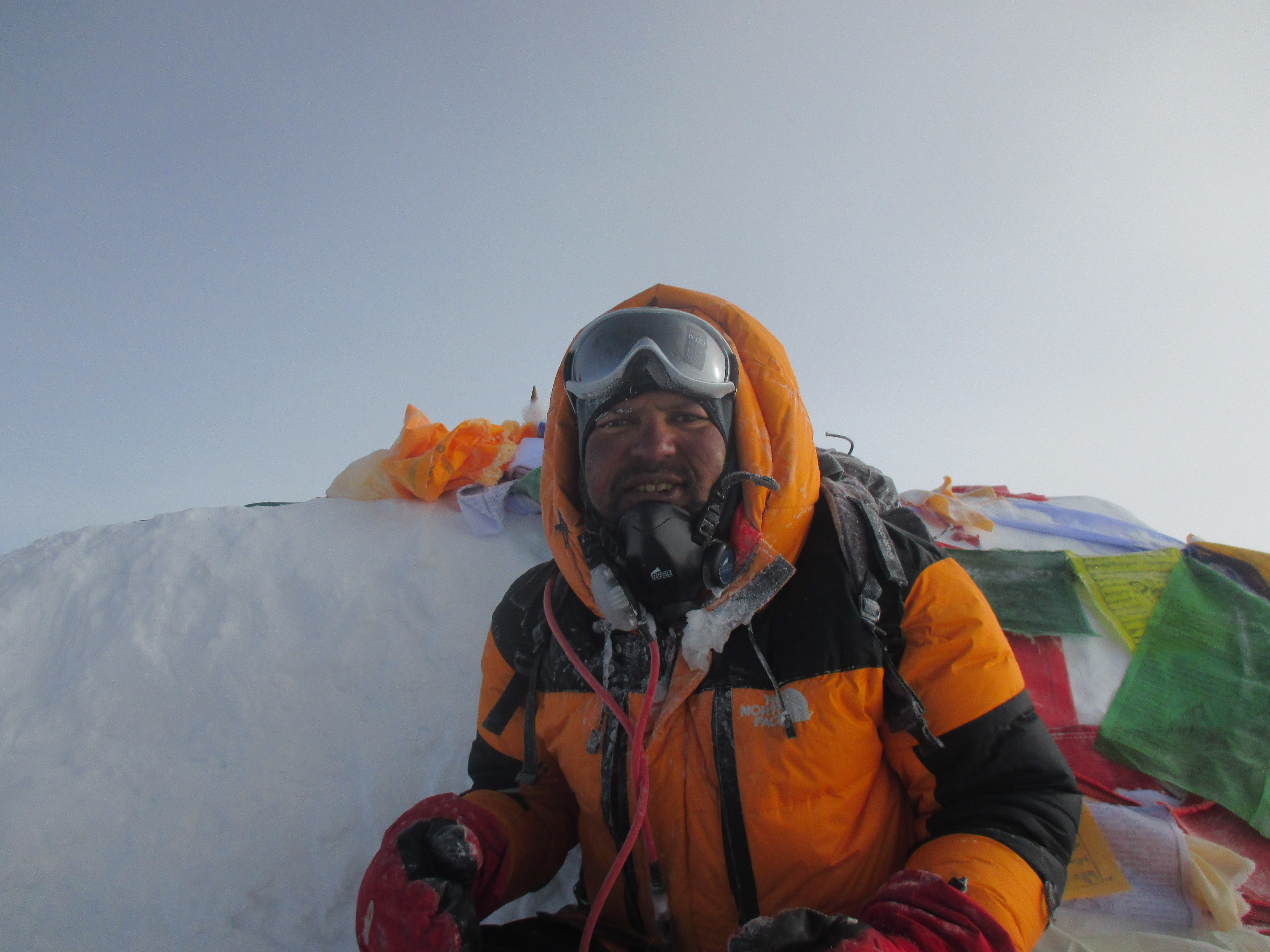 Satyarup Siddhanta on the top of world's highest mountain peak, Everest(8,848 metres)